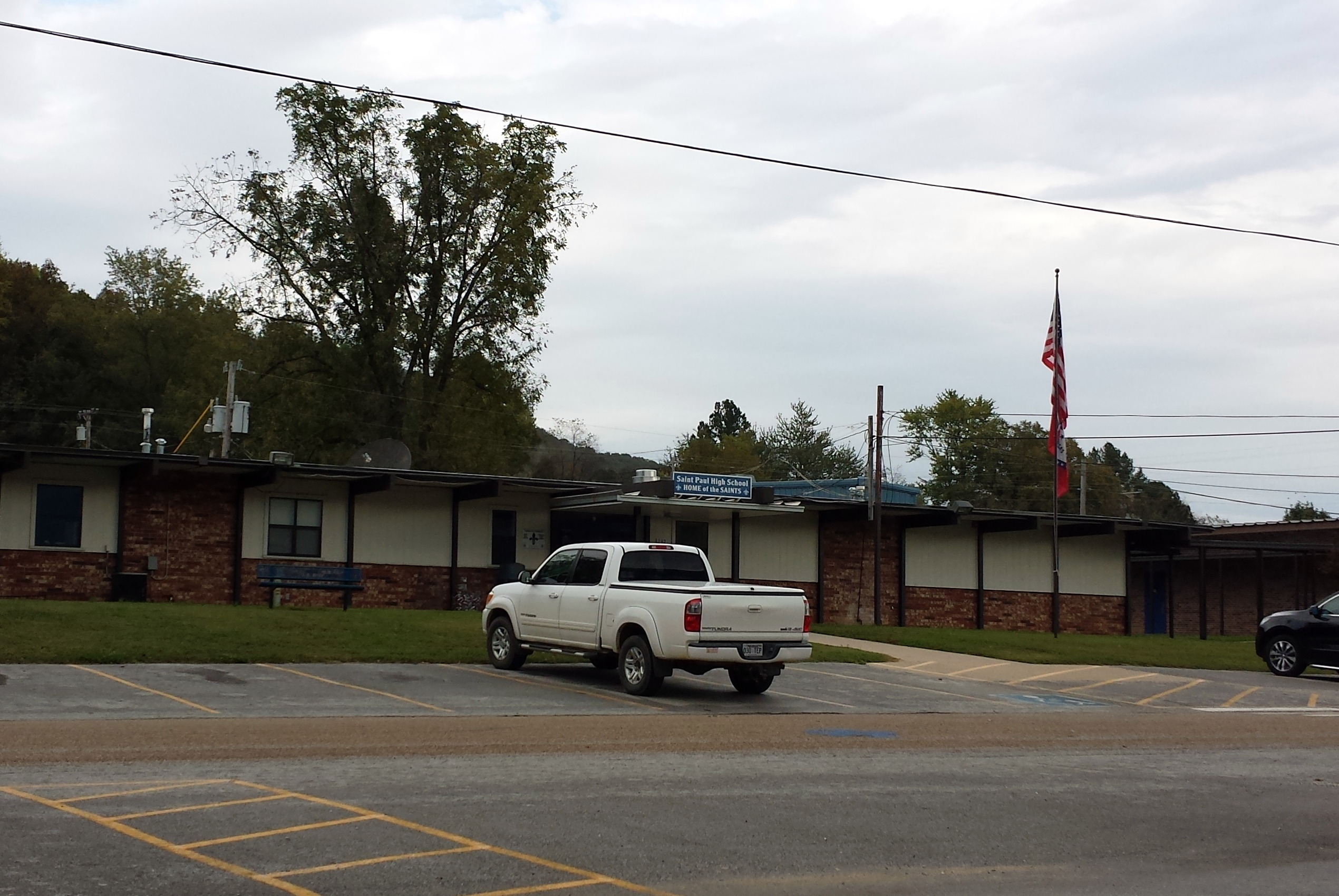 Current St. Paul High School in St. Paul, Arkansas